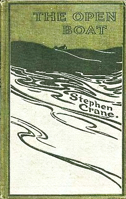 First edition cover of The Open Boat by American author Stephen Crane